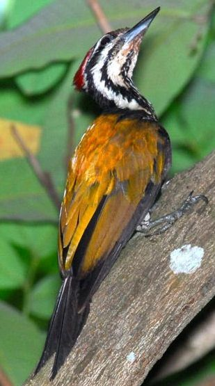 Common Flame-back Woodpecker (Dinopium javanense)Crop of File:Common_Flame-back_Woodpecker.jpg